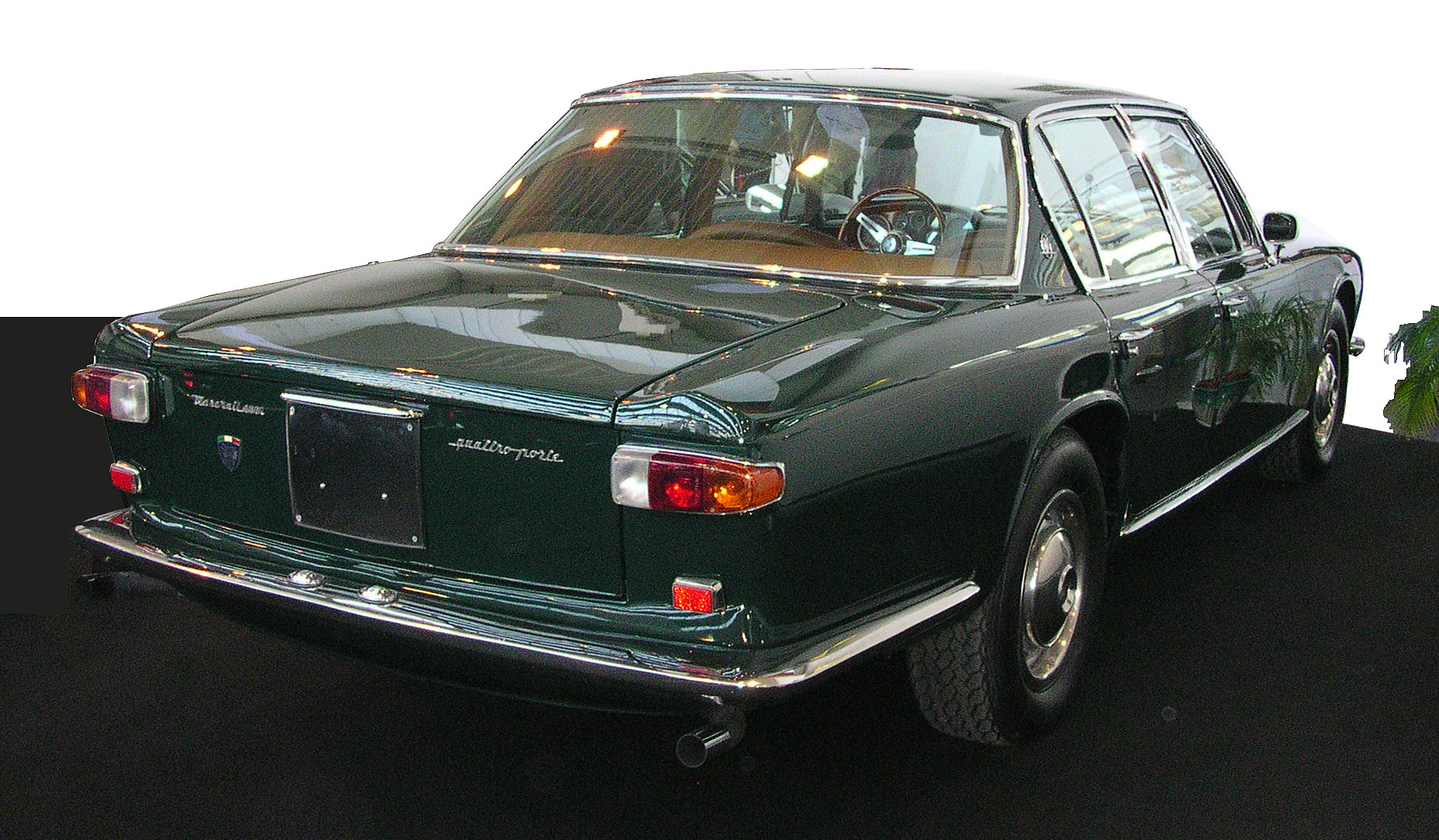 Essen Techno-Classica 2007, Maserati Quattroporte